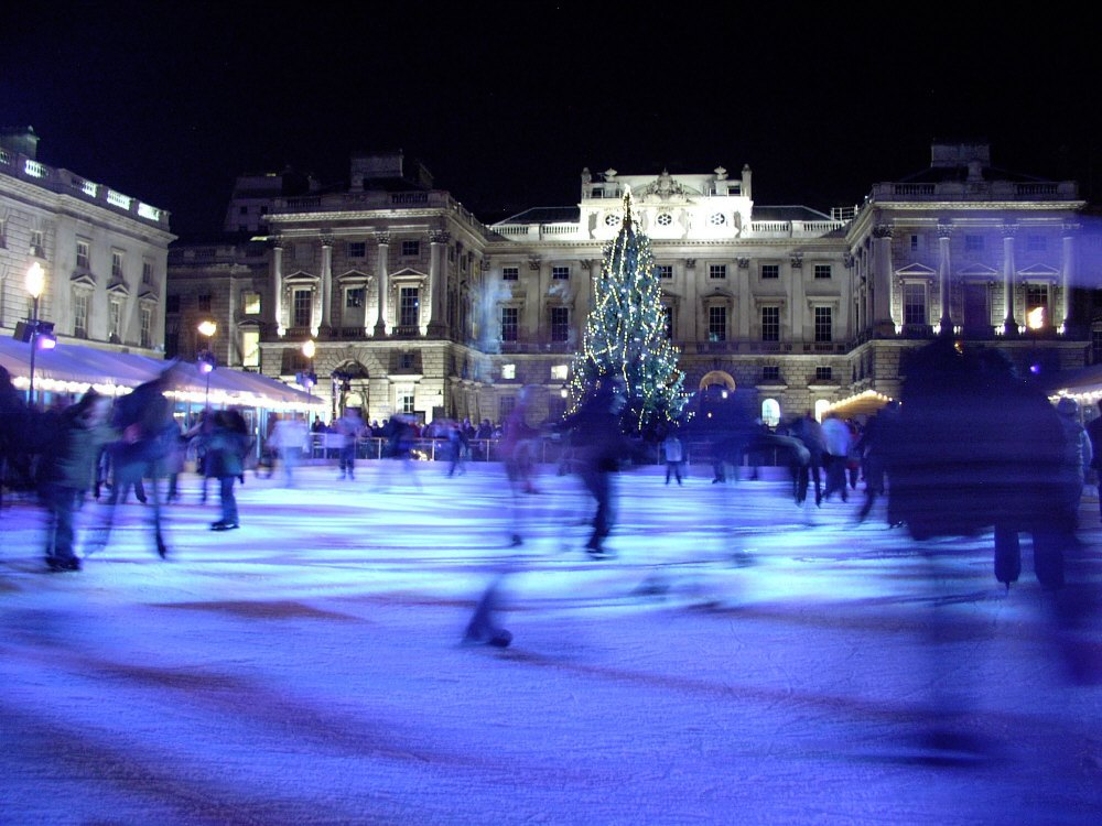 The skating ring at Somerset House.